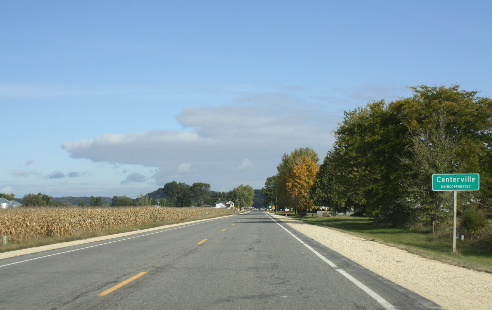 Looking north at the sign for Centerville, Trempealeau County, Wisconsin along Wisconsin Highway 35 on the Great River Road.